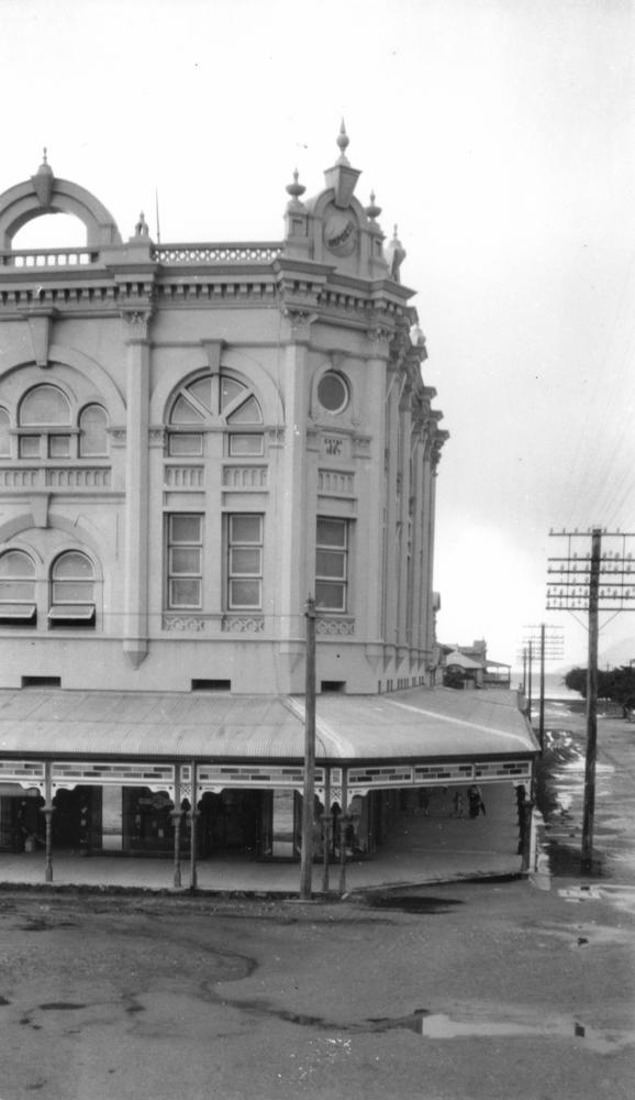 Bolands situated on the corner of Lake and Spence Streets, Cairns, 1925 Bolands and Cairns Post Office. (Description supplied with photograph.).